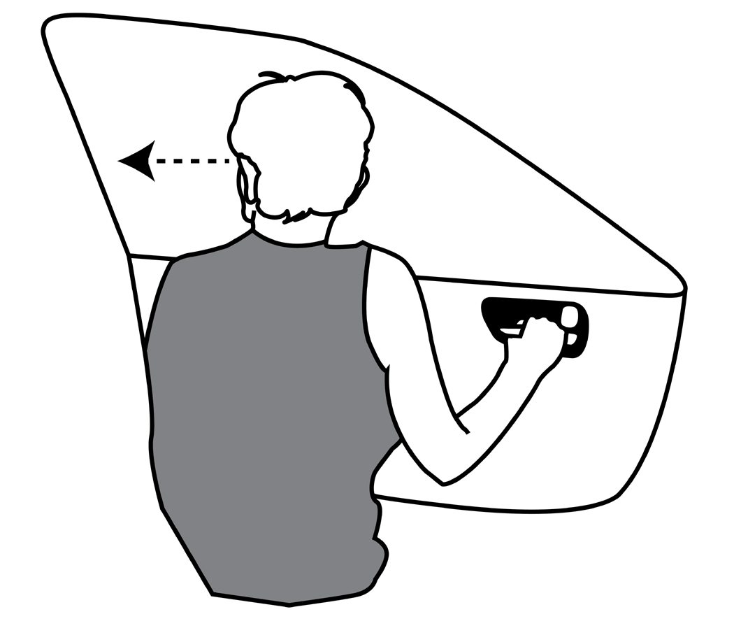 The Dutch Reach as illustrated by a black & white line drawing of a woman using the established, habitual Dutch method to avoid dooring cyclists and protect drivers and passengers from being struck by on-coming traffic when opening door to exit vehicle into the door zone.